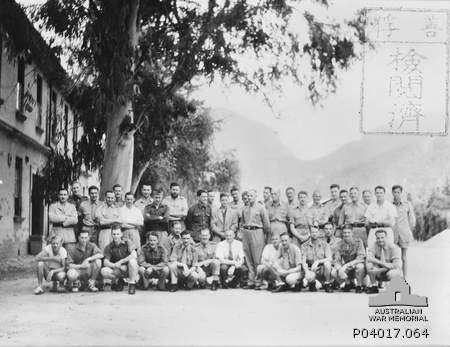 Australian prisoners of war at Shikoku, Japan, c. 1942-45. The prisoners came from a variety of units including the 2/22nd Infantry Battalion, the 1st Independent Company, the New Guinea Volunteer Rifles, and HMAS Perth.